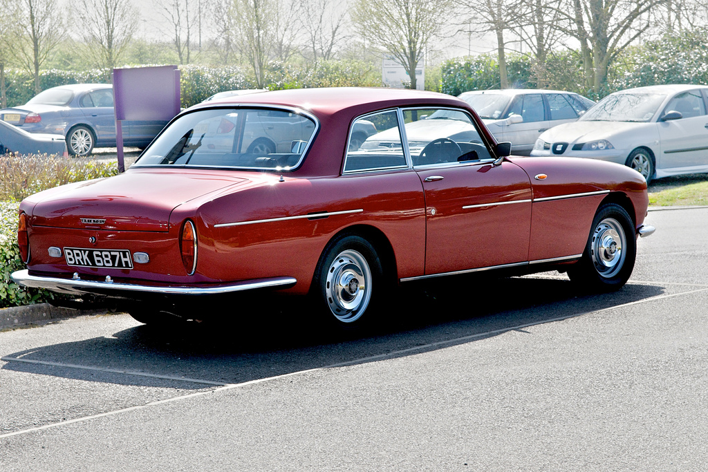 Bristol vehicles, model Bristol 411 S1. The 411 model series was the most successful Bristol design, and survives today in the re-introduced Series-6